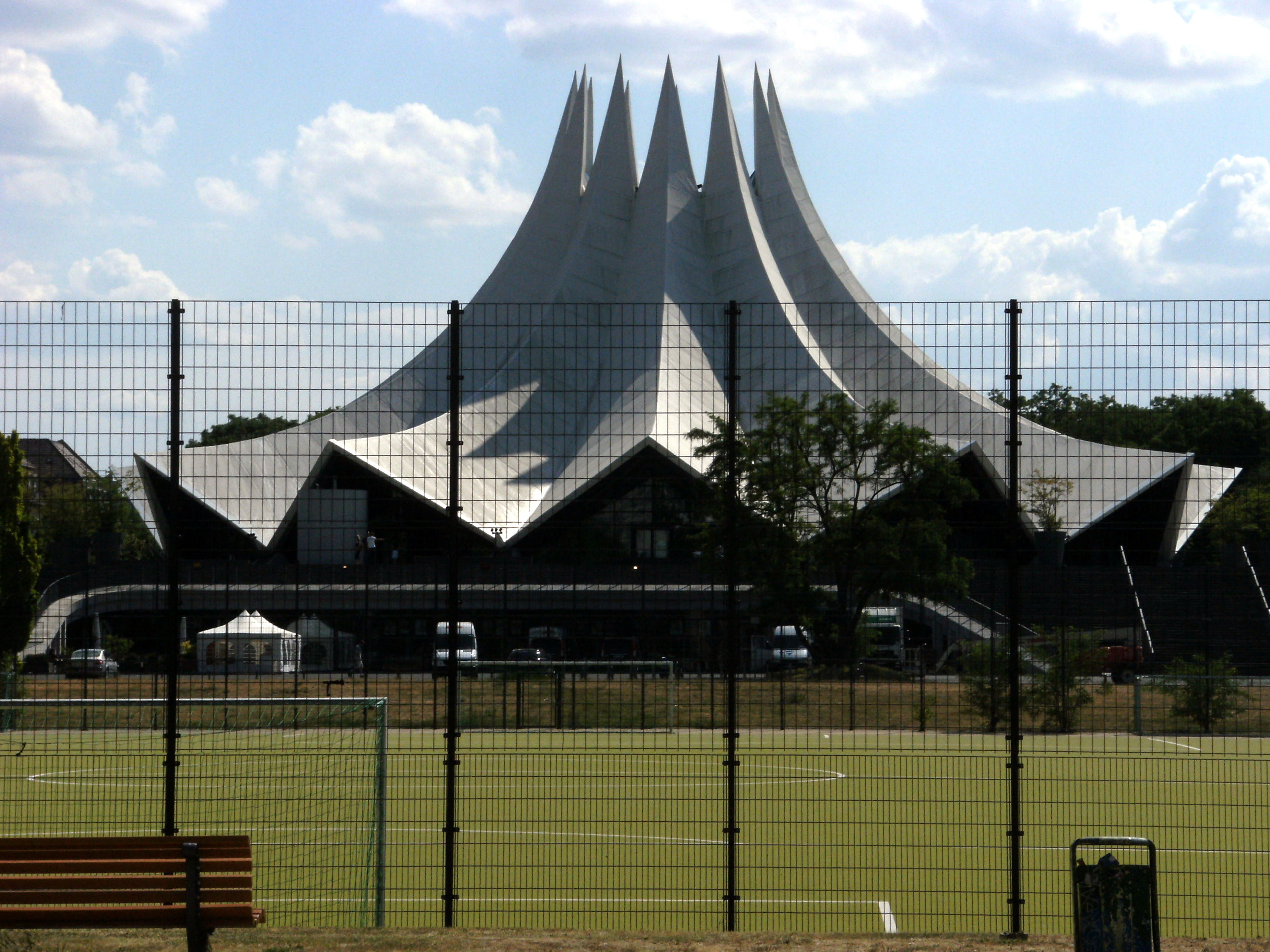 Berlin in june 2008.